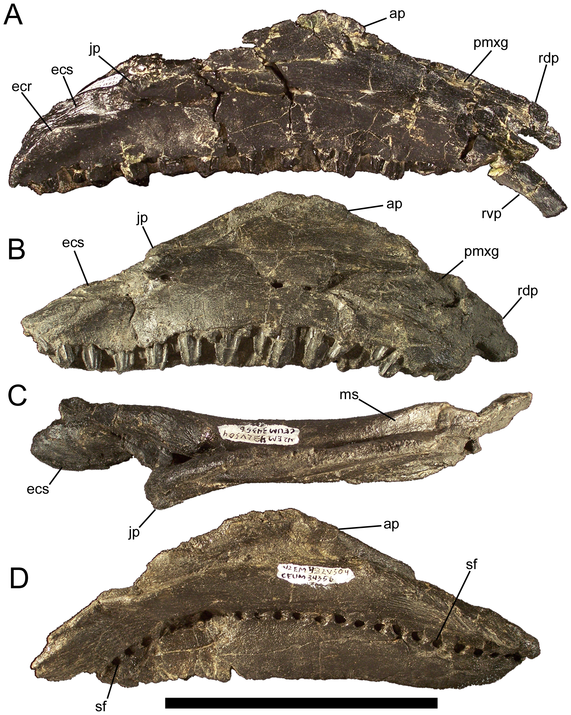 Maxillae of Eolambia. (A) Right maxilla CEUM 35492 (Eo2) in lateral view. Right maxilla CEUM 34356 (Eo2) in (B) lateral, (C) dorsal, and (D) medial views. Abbreviations: ap, ascending process; ecr, ectopterygoid ridge; ecs, ectopterygoid shelf; jp, jugal process; ms, medial shelf; pmxg, premaxillary groove; rdp, rostrodorsal process; rvp, rostroventral process; sf, special foramina. Scale bar equals 10 cm.